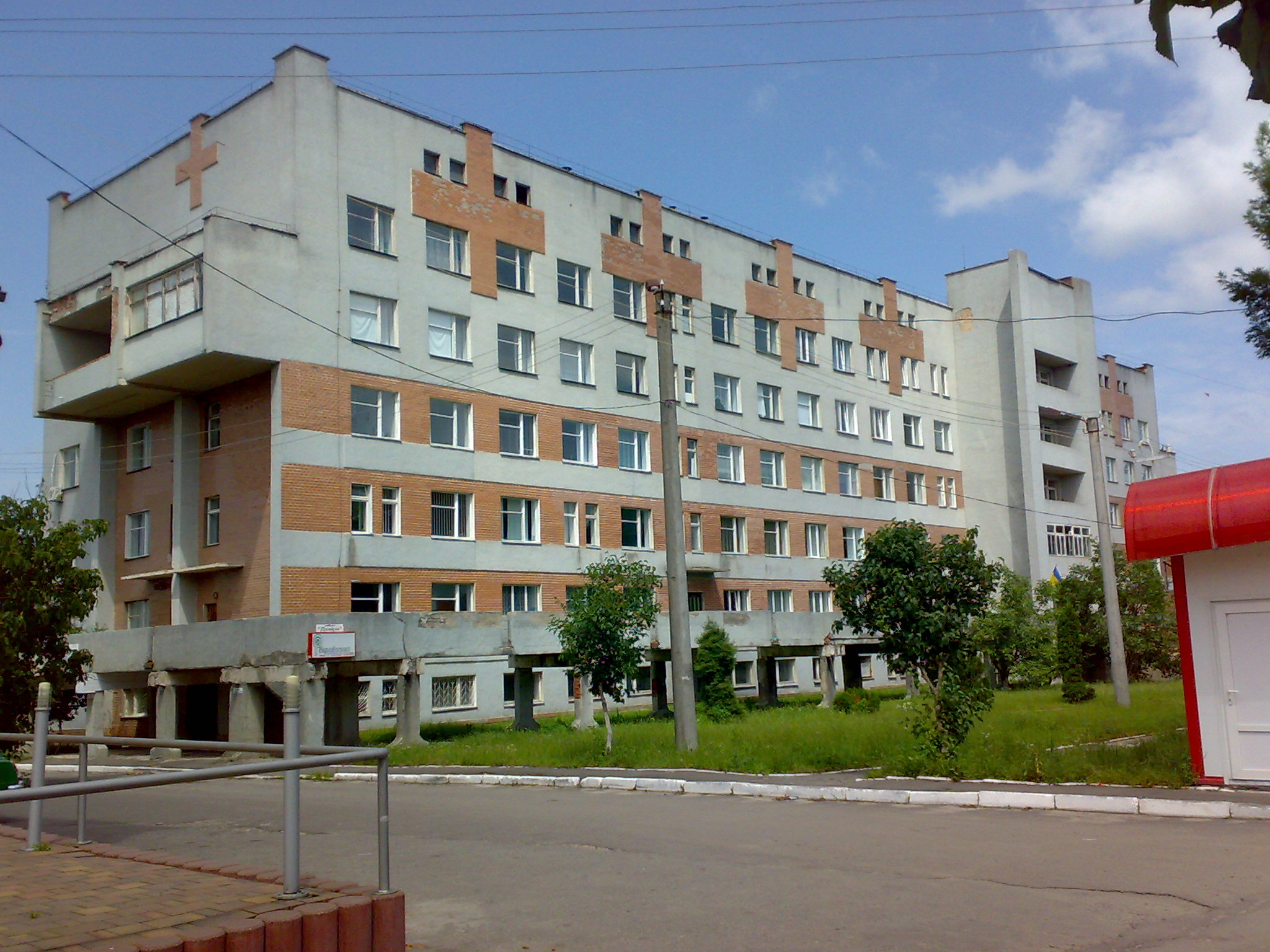 Hospital in Krasyliv